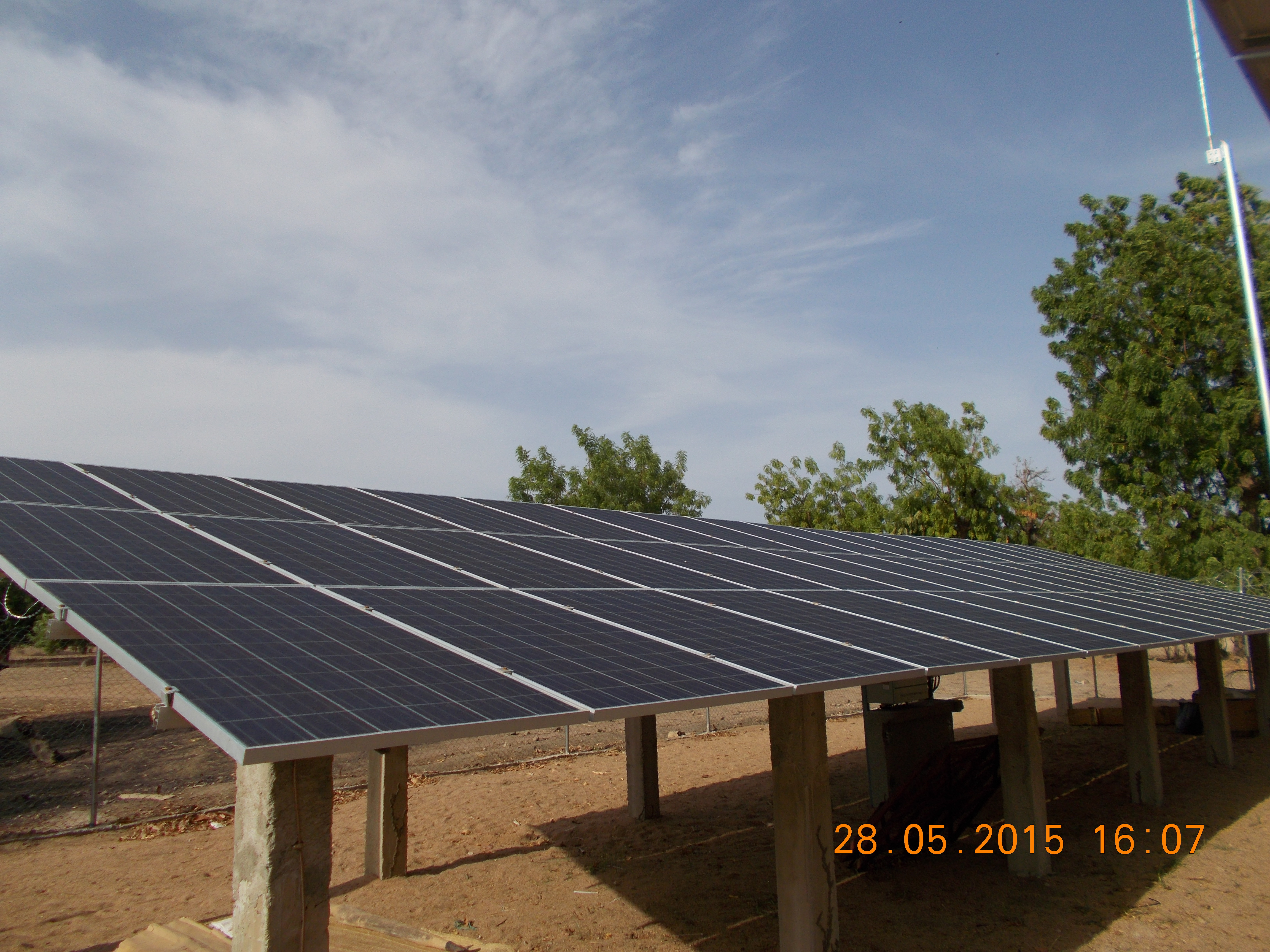 This is an image from Cameroon